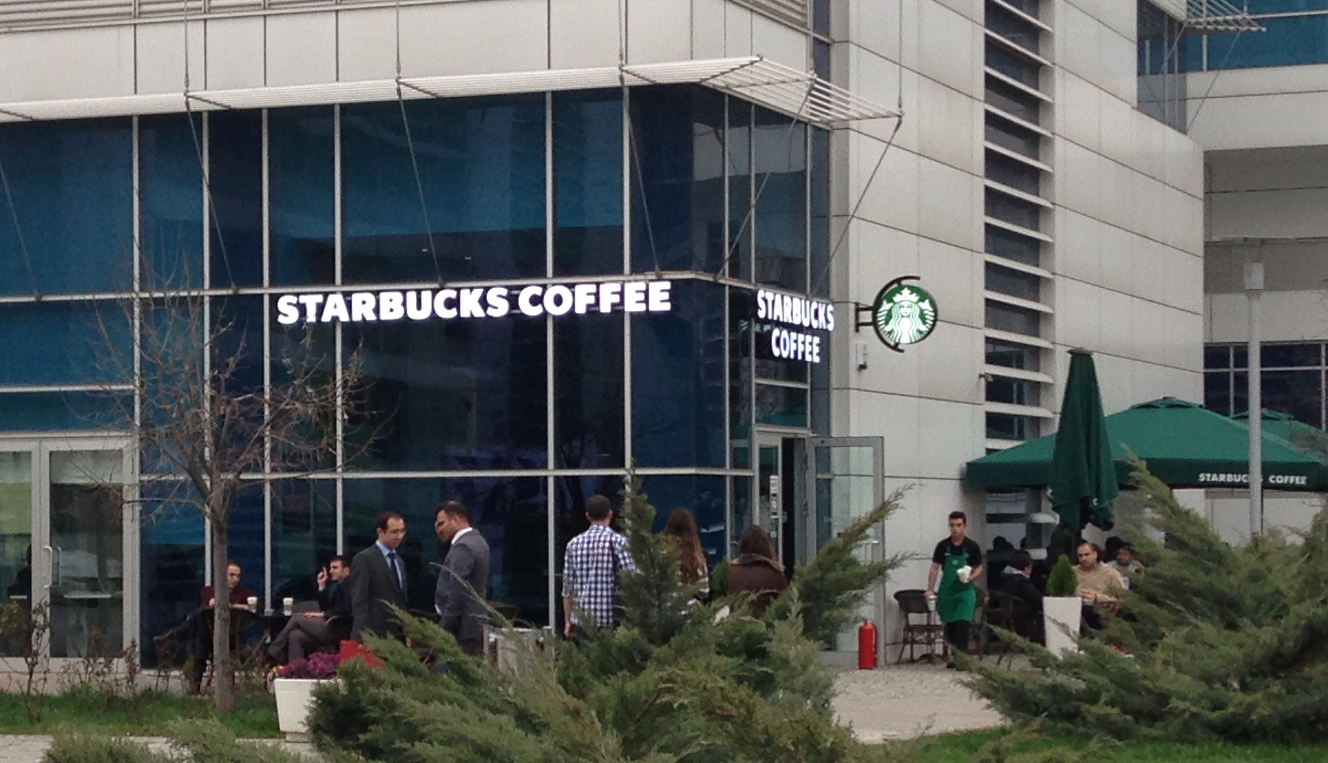 A Starbucks Coffee in the campus of the TOBB University of Economics and Technology in Ankara, Turkey.